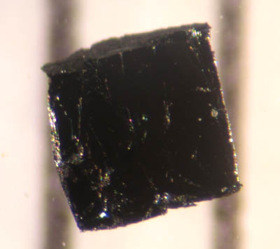 A small sample of the high-temperature superconductor, Bi-2223.